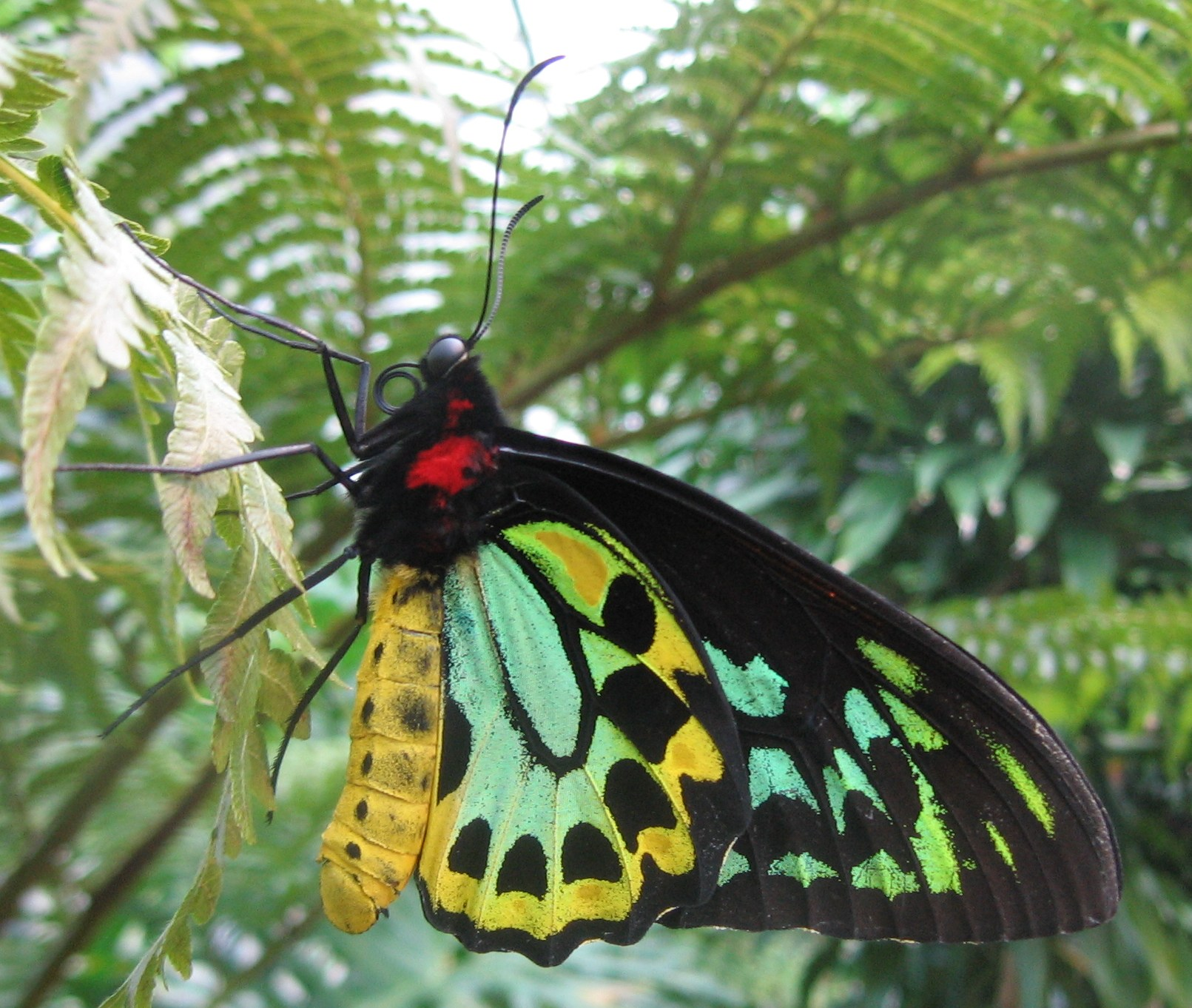 A male Cairns Birdwing (Ornithoptera euphorion), with wings closed.